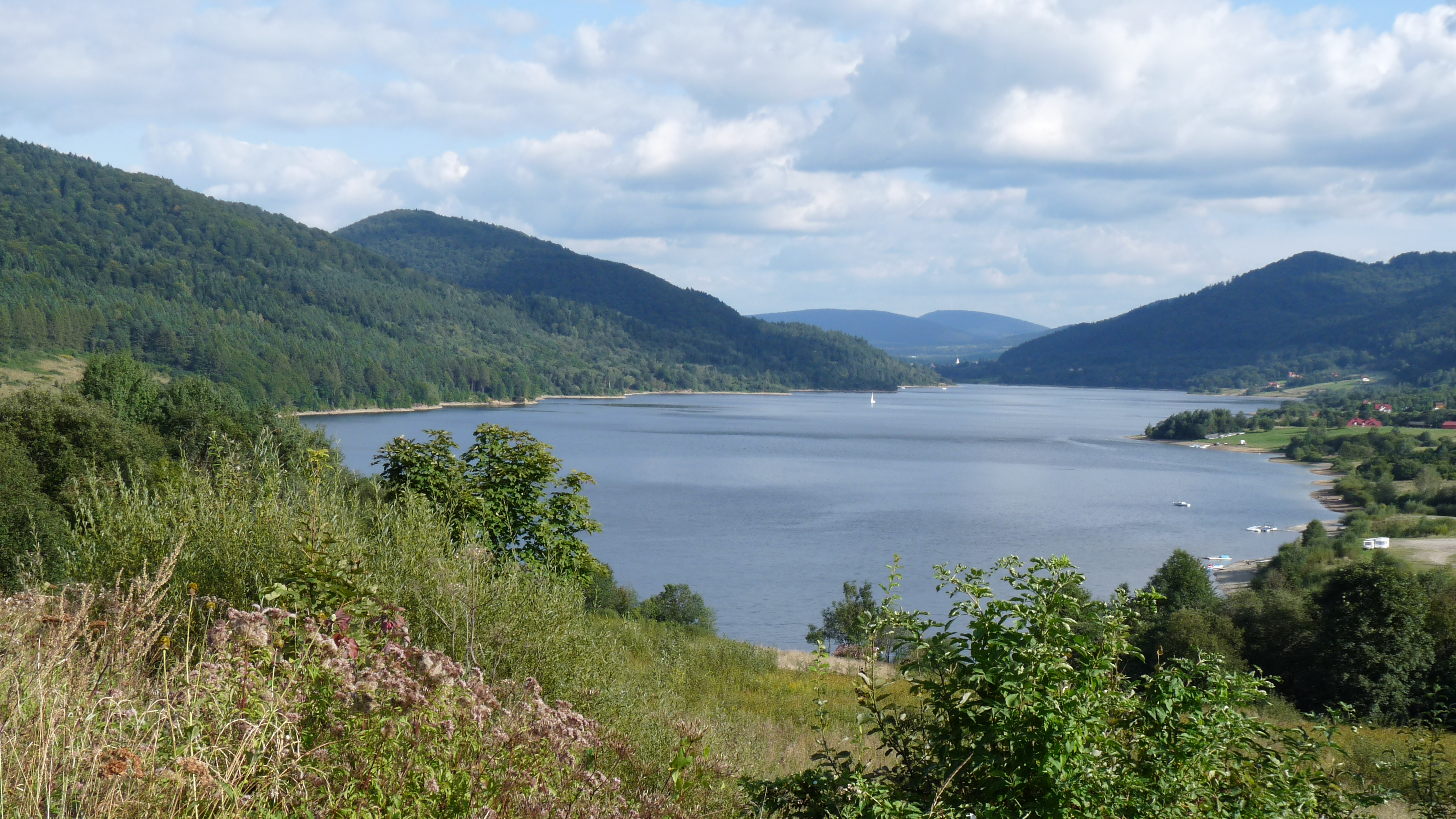 Klimkówka Lake